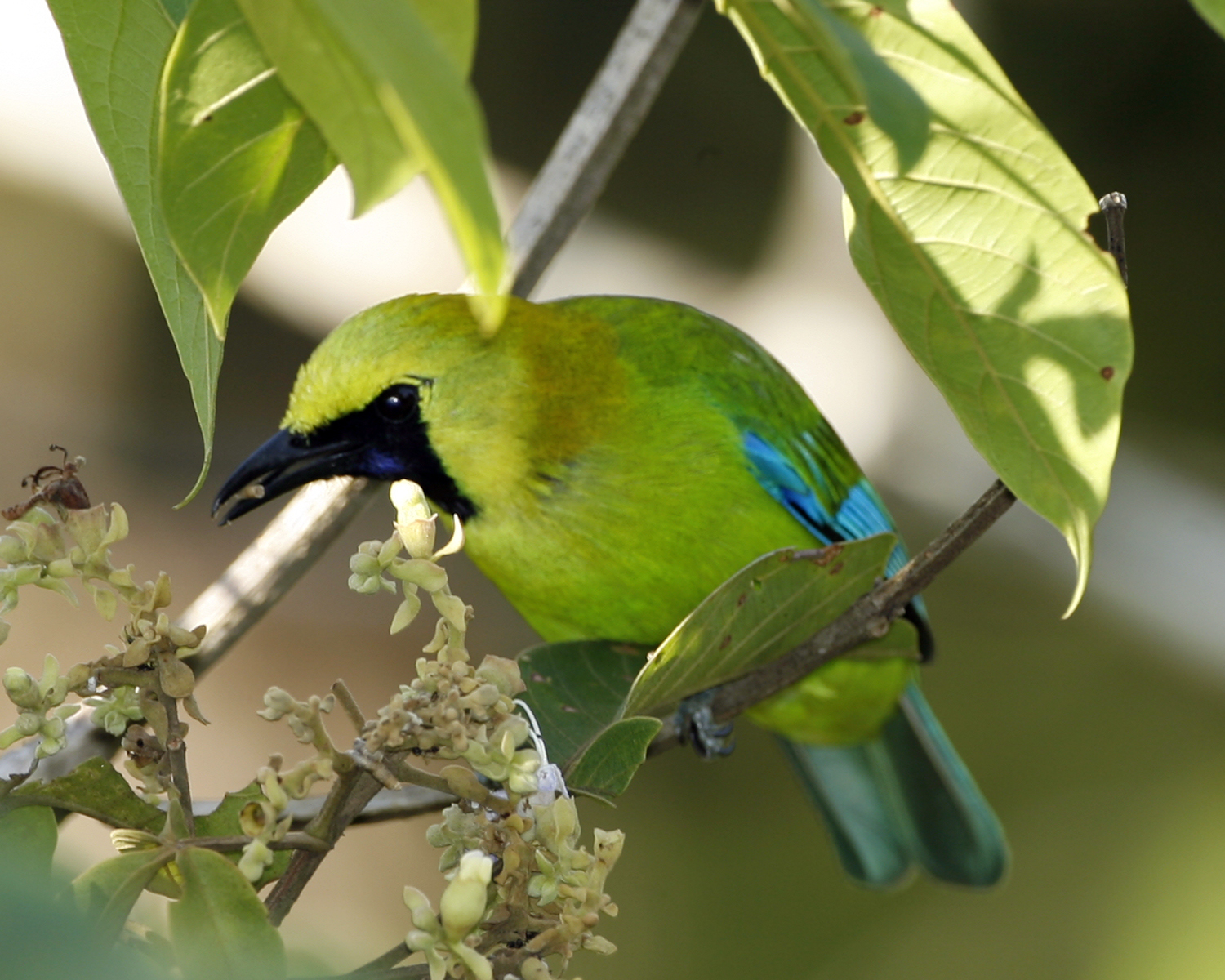 Blue-winged Leafbird. A male in Sime Forest, Central Catchment area, Singapore on 1 March 2006.